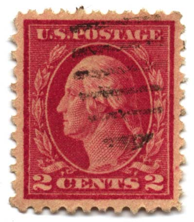 Scan of United States 2c stamp of 1914